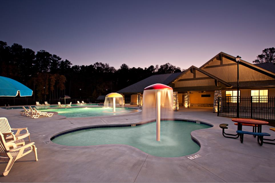 Looking for a fun and safe family environment? Visit the new pool located in the City of Clarkston Milam Park! We offer a variety of summer aquatic programs for both children and adults.